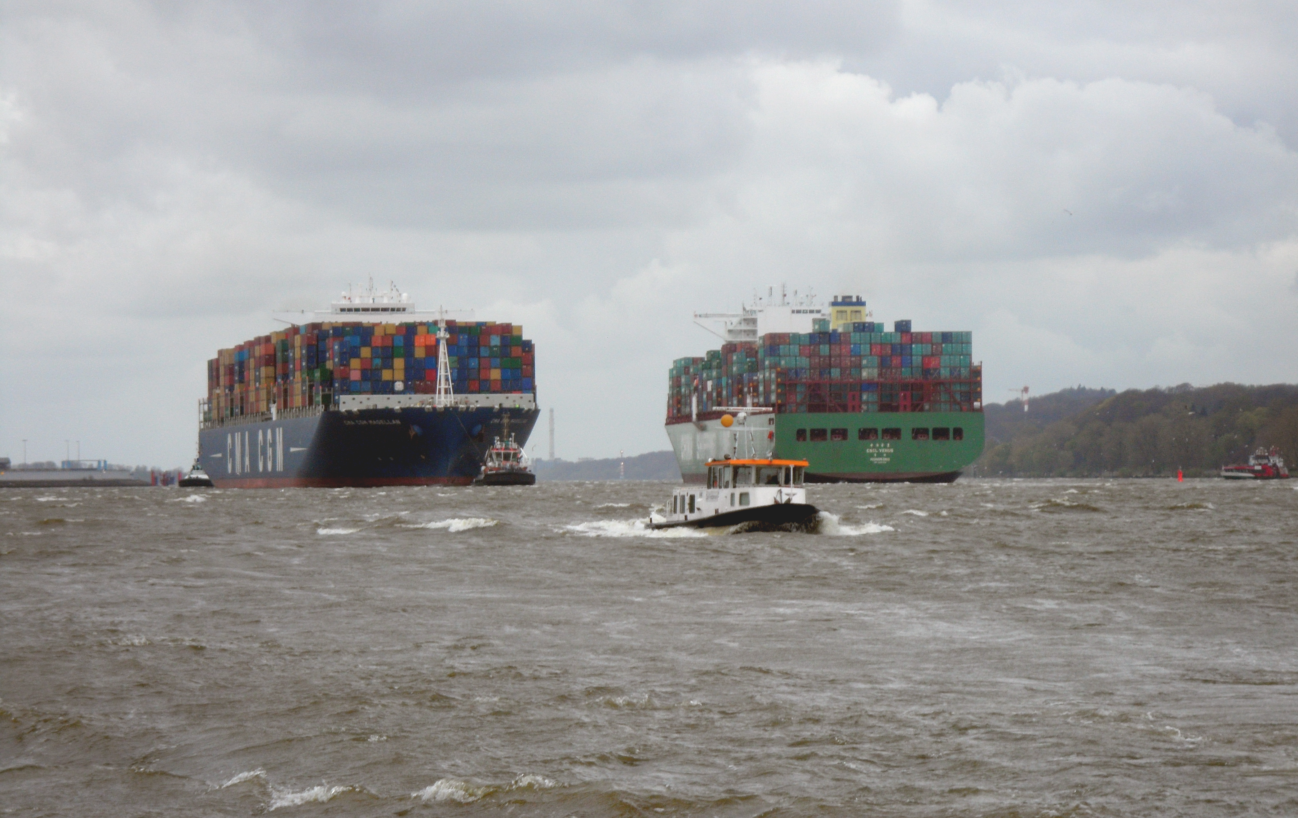 Large container ships on ship channel navigation on the river Elbe.png